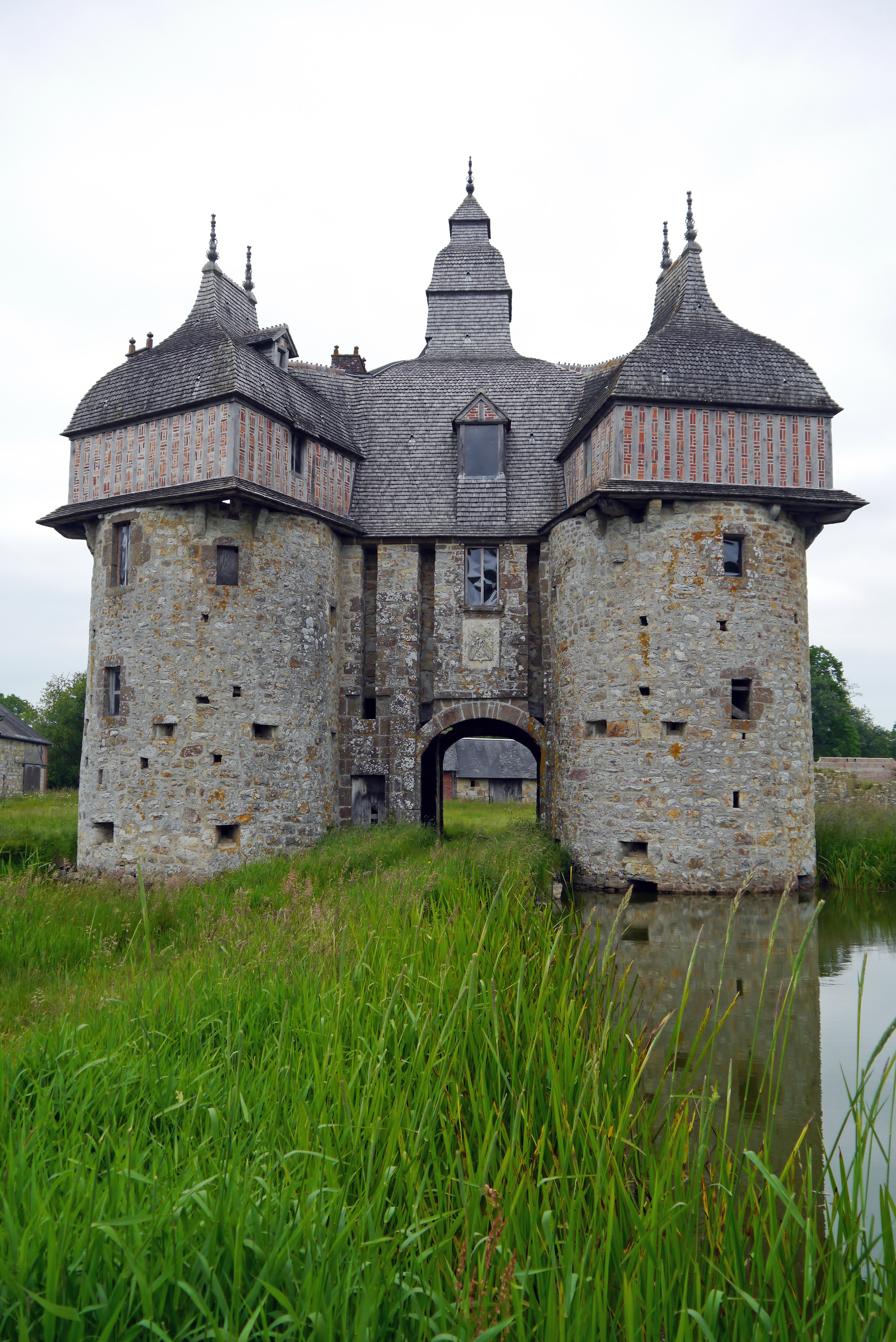 La Haute-Chapelle, Orne, France. Manoir de la Saucerie.